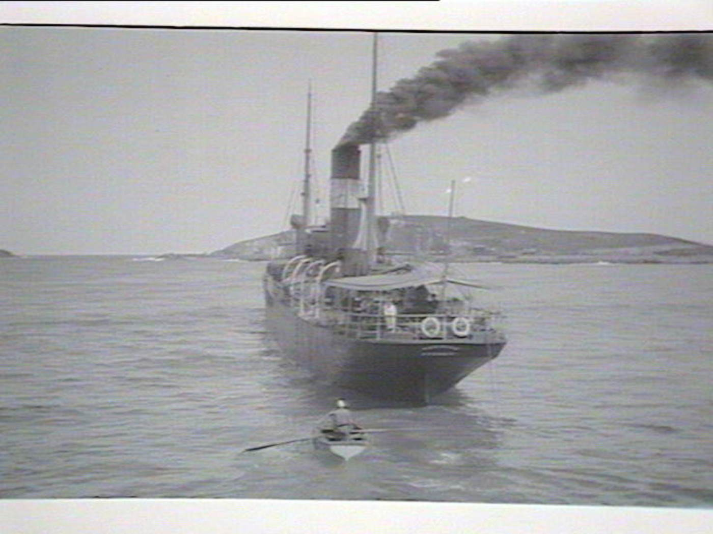 683 GRT passenger and cargo steamship Dorrigo. Smith's Dock of Middlesbrough built her in 1913 as Saint François for Cie. Navale de l'Océanie of Bordeaux. Langley Brothers of Sydney, NSW bought her in 1922 and renamed her Dorrigo. North Coast Steam Navigation Co acquired the ship when it took over Langley Bros in 1925. John Burke of Brisbane bought Dorrigo from North Coast Steam Navigation later in 1925. On 2 April 1926 en route from Sydney to Thursday Island she sank off Double Island Point, Queensland.